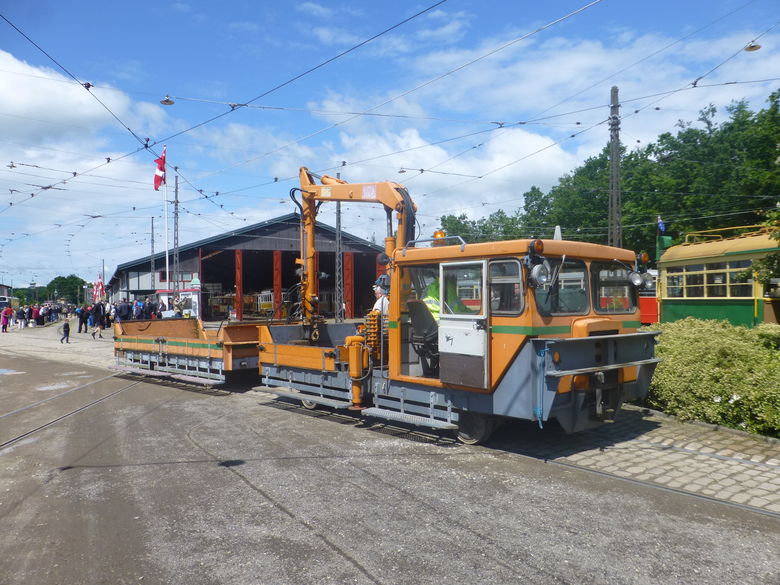 Tram parade at Sporvejsmuseet Skjoldenæsholm due to celebrating of 50 years of the Danish tramway society, Sporvejshistorisk Selskab. Service vehicles.